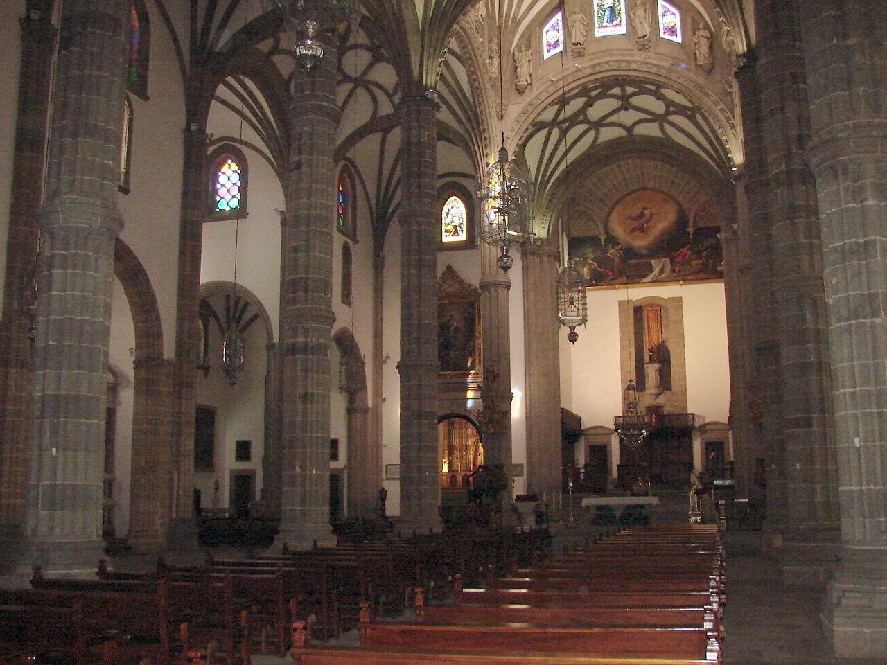 Inside